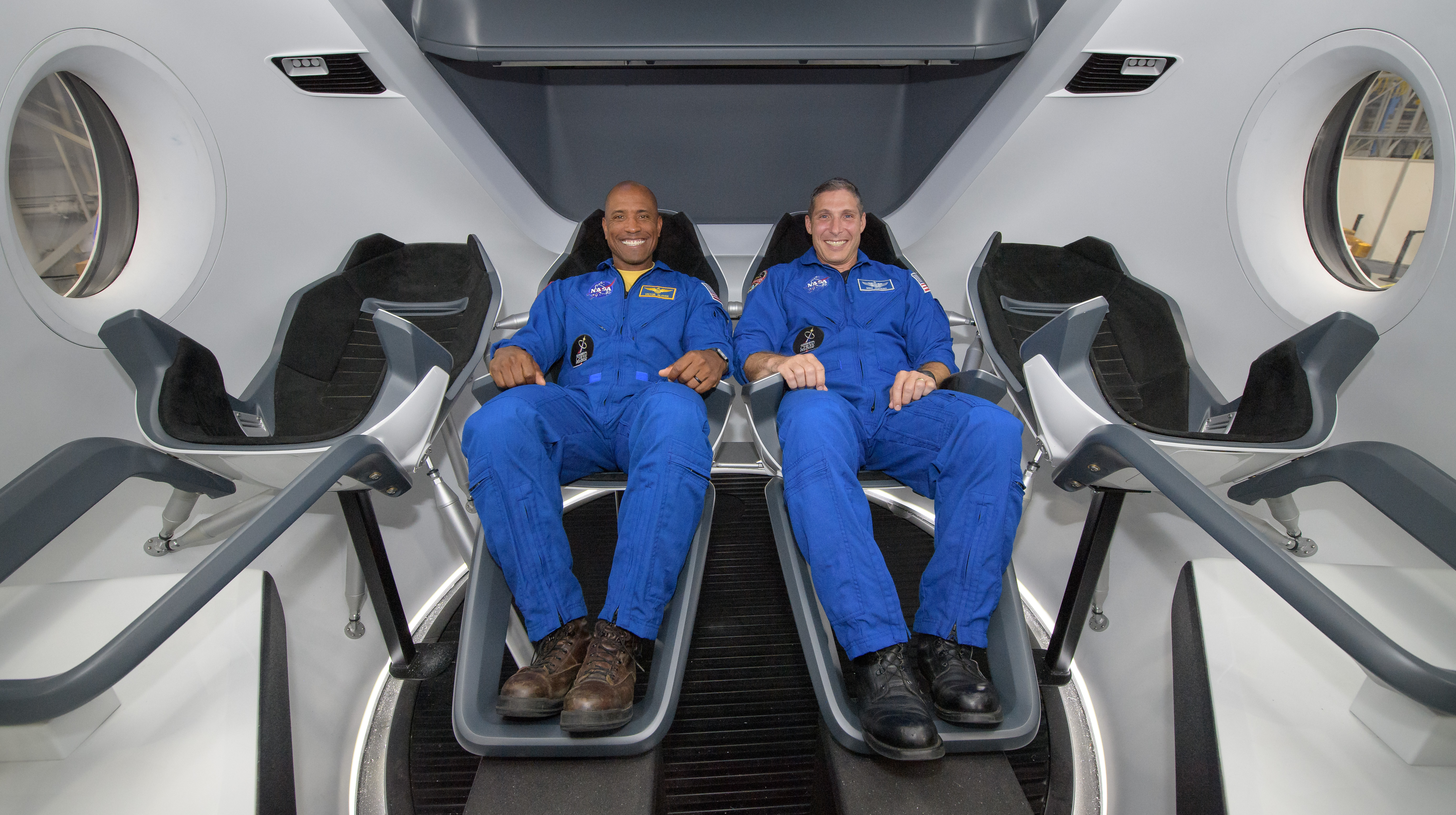 NASA astronauts Victor Glover and Mike Hopkins, assigned to fly on the first operational mission of SpaceX’s Crew Dragon, pose inside a mockup of the spacecraft at NASA’s Johnson Space Center in Houston, Texas on Aug. 2, 2018 ahead of the agency’s announcement of their commercial crew assignment Aug. 3. Nine U.S. astronauts were selected for commercial crew flight assignments on the first test flights and operational missions for Boeing’s CST-100 Starliner and SpaceX’s Crew Dragon. Photo Credit: (NASA/Bill Ingalls)